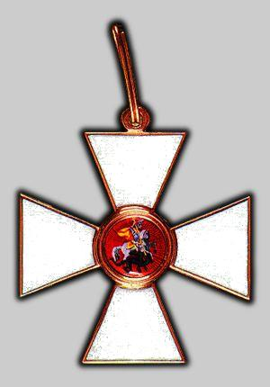 Order of St. George 1st